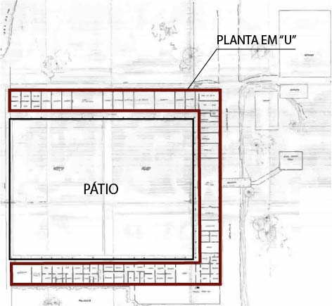 Fazenda do Pocinho: traçado regulador da edificação.